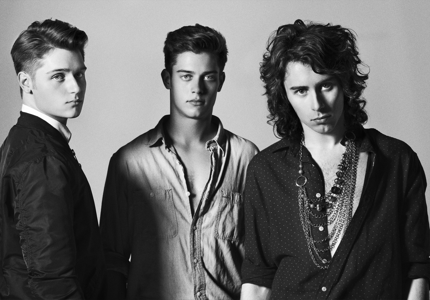 This photo will be used to visually identify the band The Ceremonies, who are the topic of the entry.